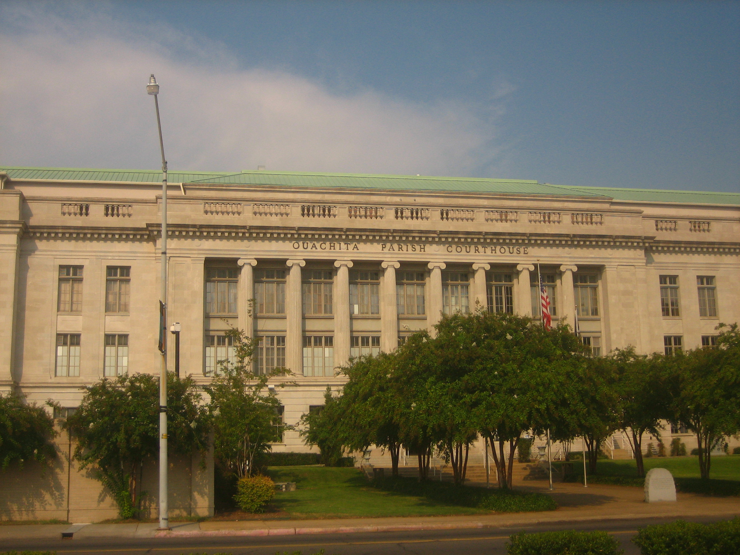 Ouachita Parish Courthouse in downtown Monroe, Louisiana. I took photo on Aug. 2, 2008.Billy Hathorn (talk) 04:13, 17 August 2008 (UTC)